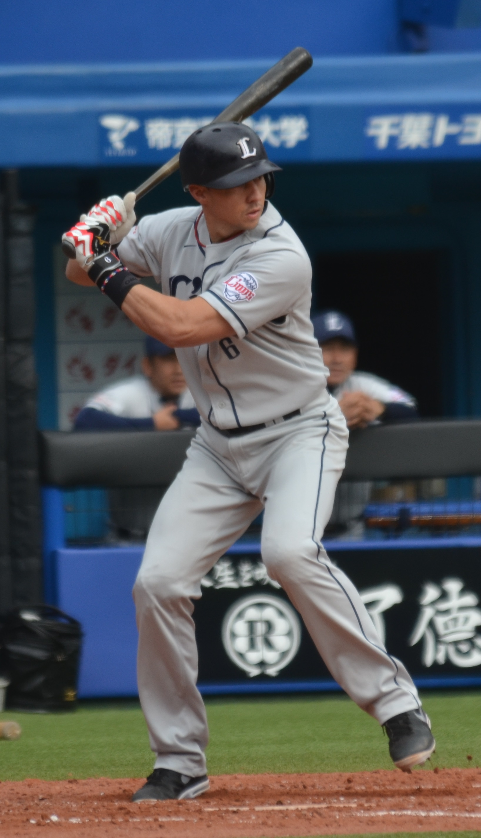 Cody Ransom, infielder of the Saitama Seibu Lions, at Chiba Marine Stadium.